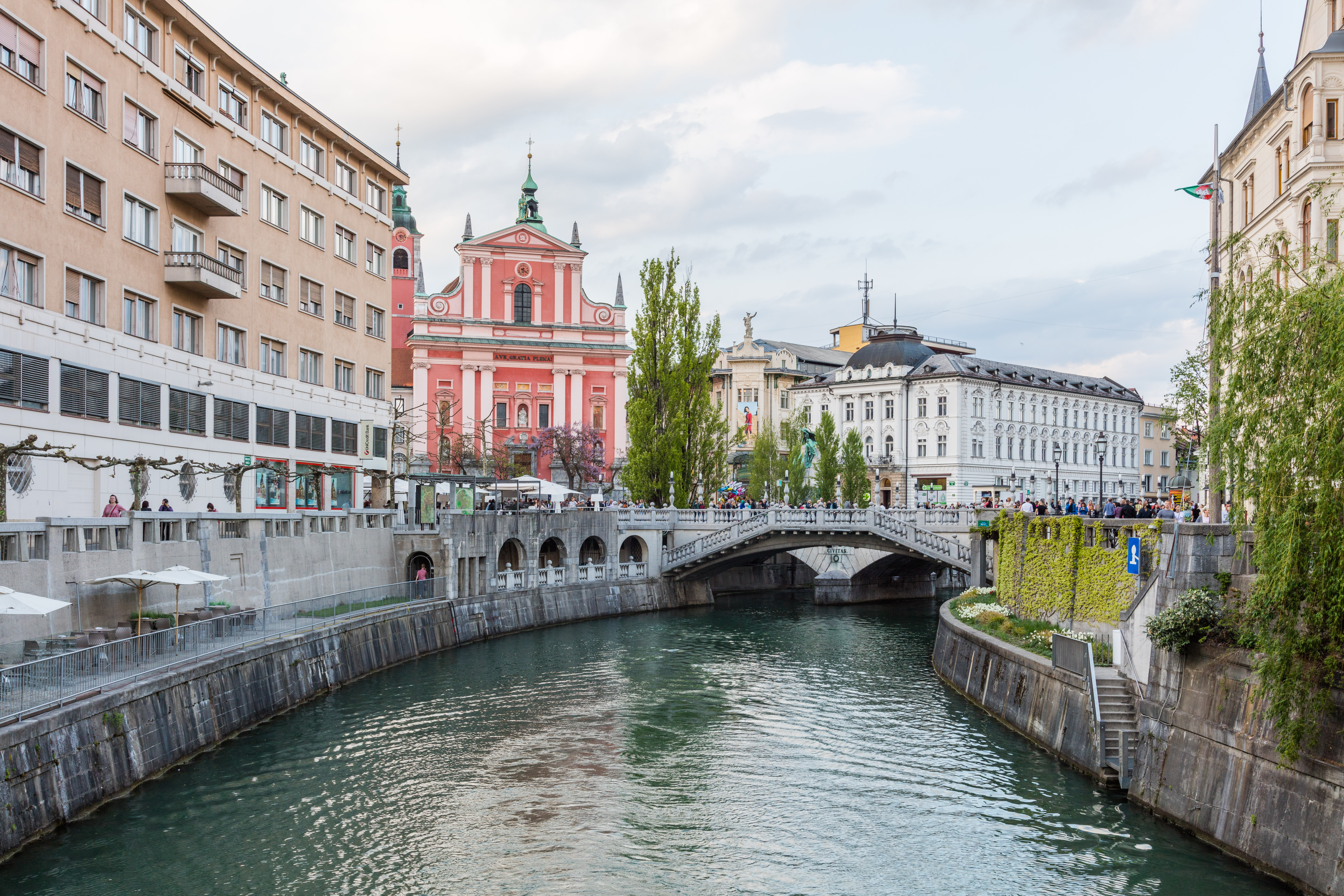 Ljubljanica river and central market, Ljubljana, Slovenia